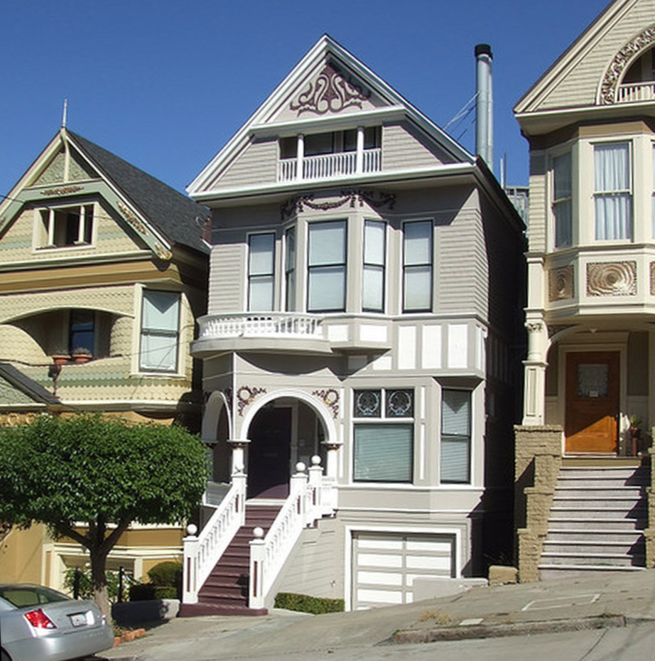 Janis Joplin's house in Haight-Ashbury, San Francisco, California. She lived here in the 1960s.